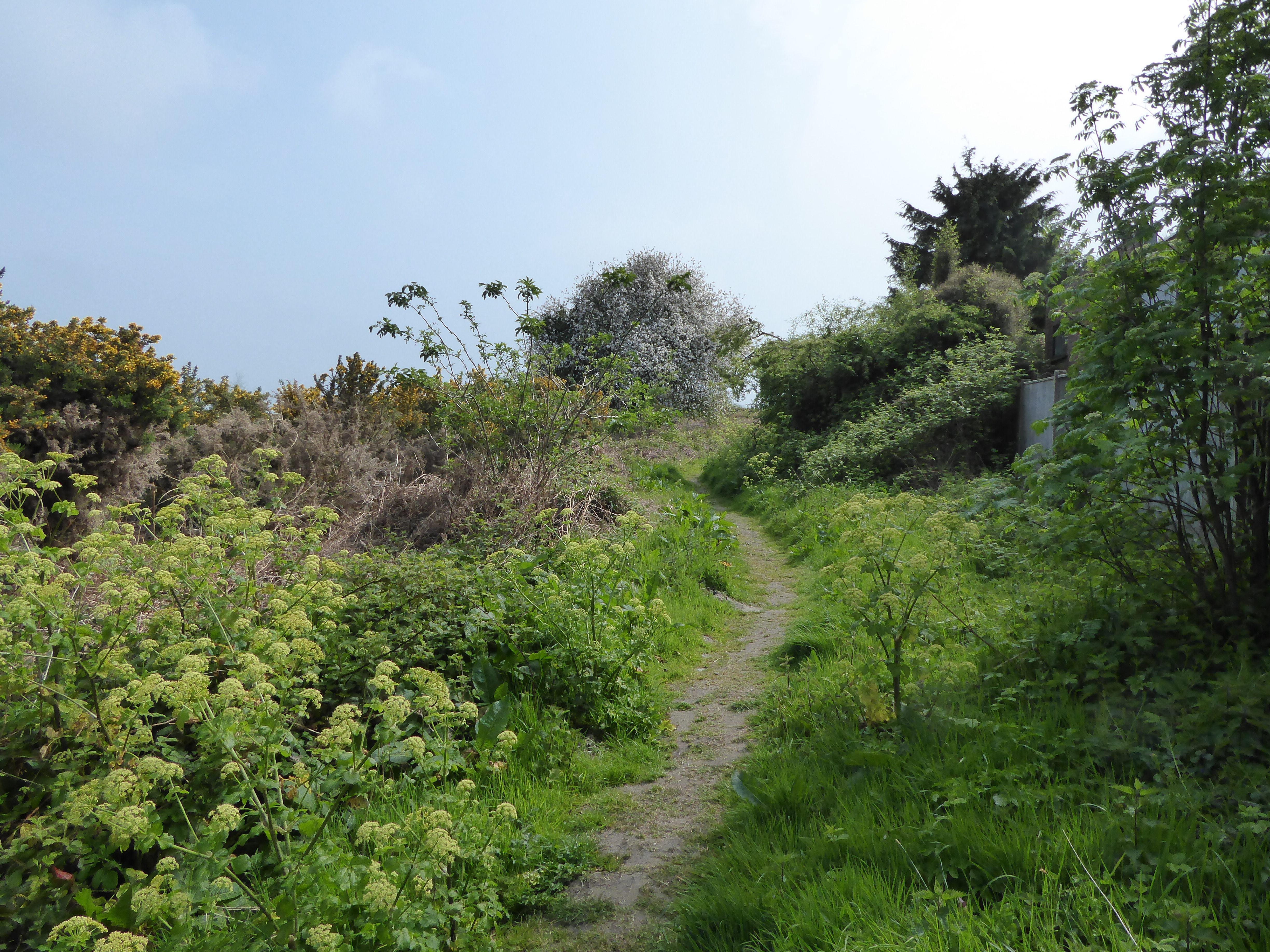 Gunton Warren is a nature reserve in Lowestoft in Suffolk. It is managed by the Suffolk Wildlife Trust, and is part of the Gunton Warren and Corton Woods Local Nature Reserve.